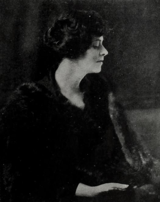 Beatrice Ashley Chanler